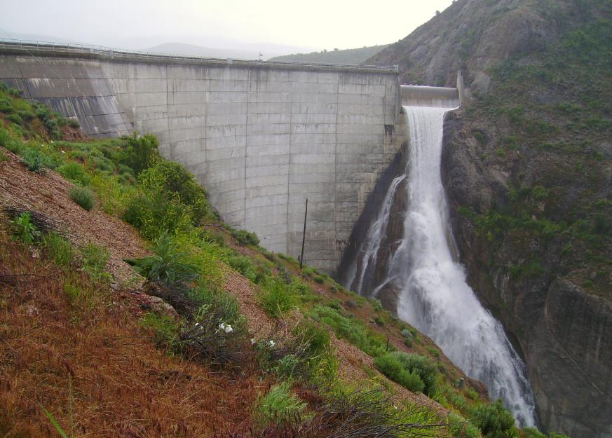 East Canyon Dam, Morgan County, Utah